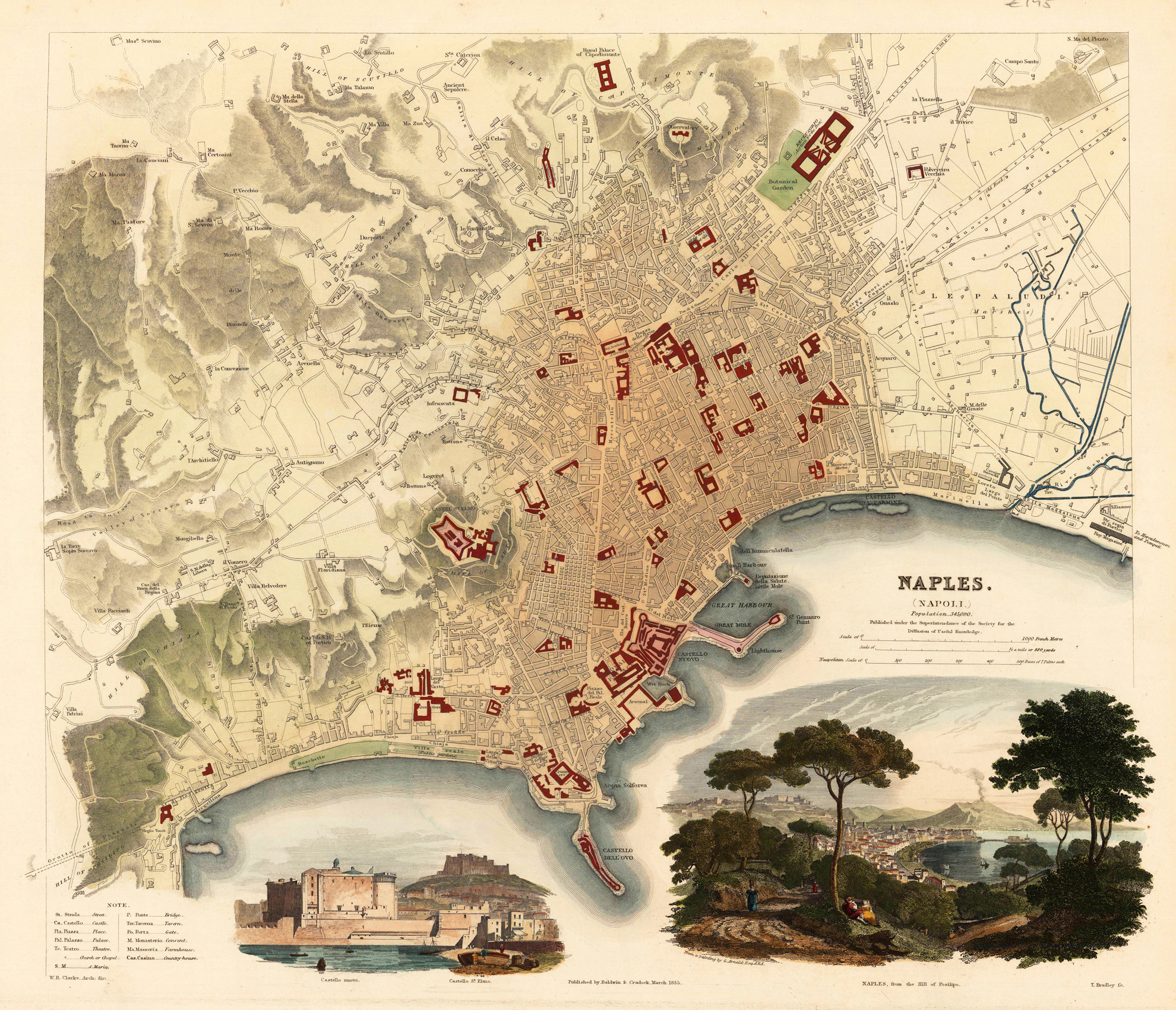 The Maps of the Society for the Diffusion of Useful Knowledge - Naples 1835